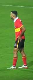 Juan Mera González photo